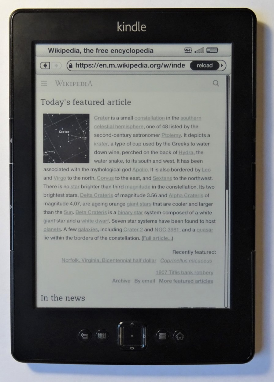 Amazon Kindle 5 showing the main page of the English Wikipedia